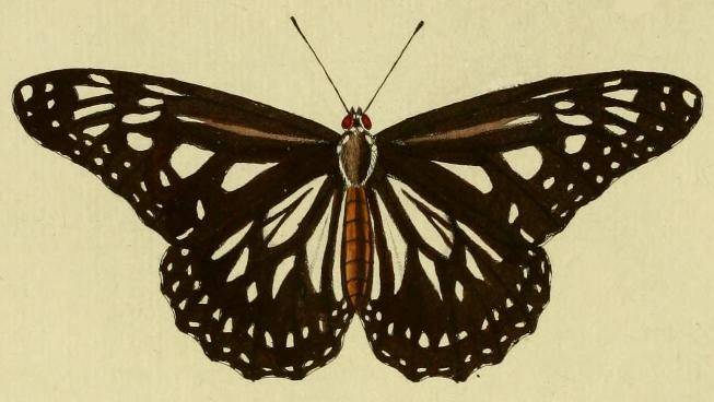 Plate CCLXXIX E, F: "(Papilio) Ismare" ( = Danaus ismare (Cramer, [1780]), iconotype?), see Funet. In register spelled "ISMARA".